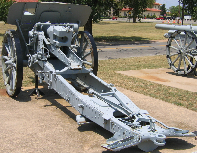 Rear view of a German 10 cm Kanone 14 at Ft. Sill, OK